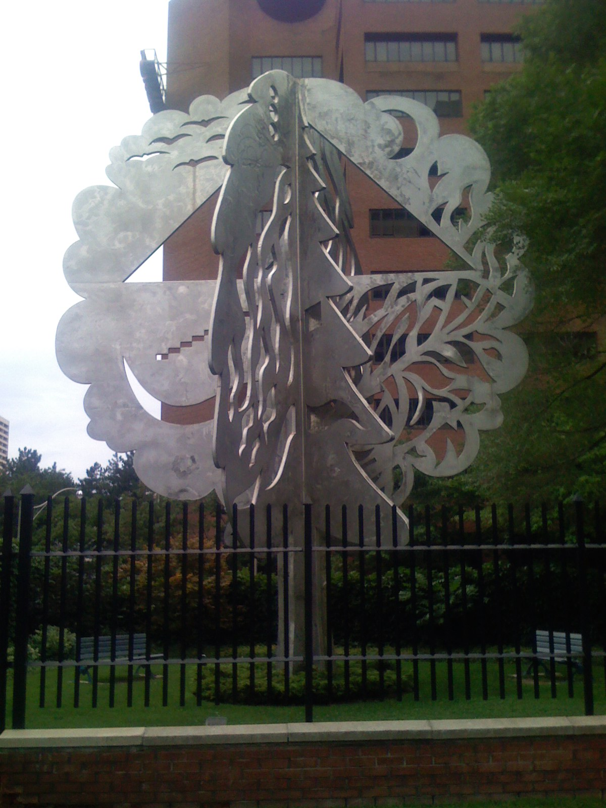 Sculpture Red, Orange and Green (1992) by Michael Snow behind the Rogers building on Huntley Street